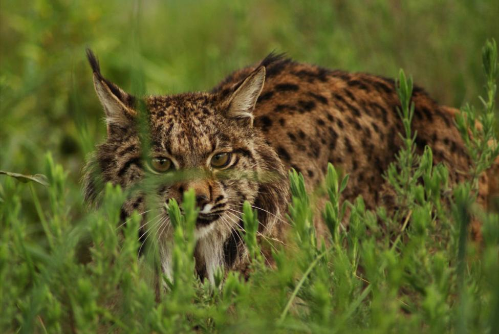 Iberian Lynx adult from the Program Ex-situ Conservation